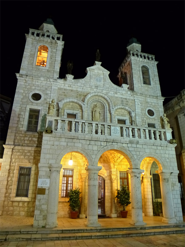 Wedding Church, Kafr Kanna, Israel.